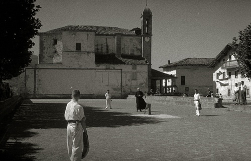 Errebote match in Zubieta.